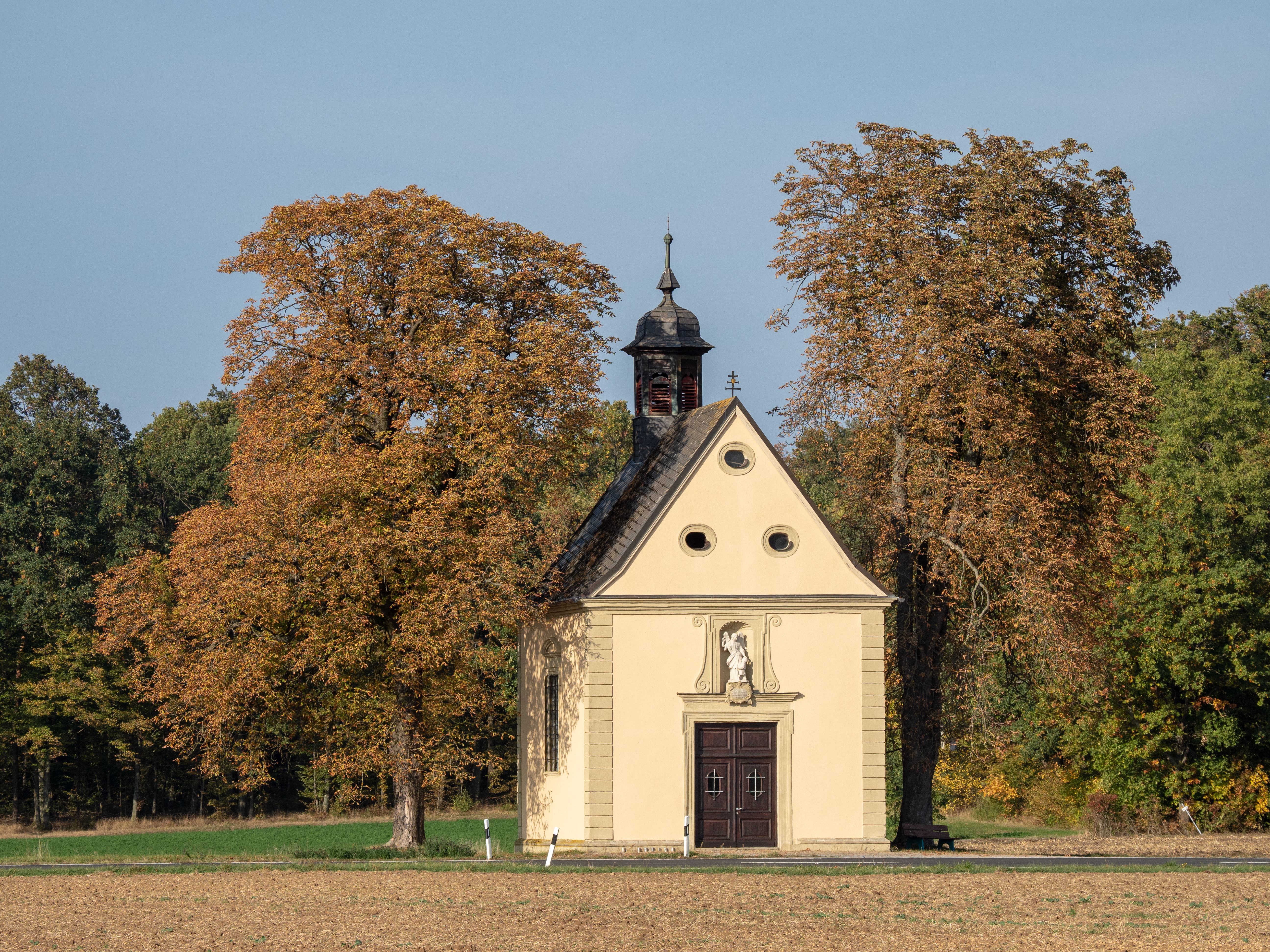 Donnersdorf, Traustadt, Am Schloß 6, Catholic Chapel of the Holy Trinity